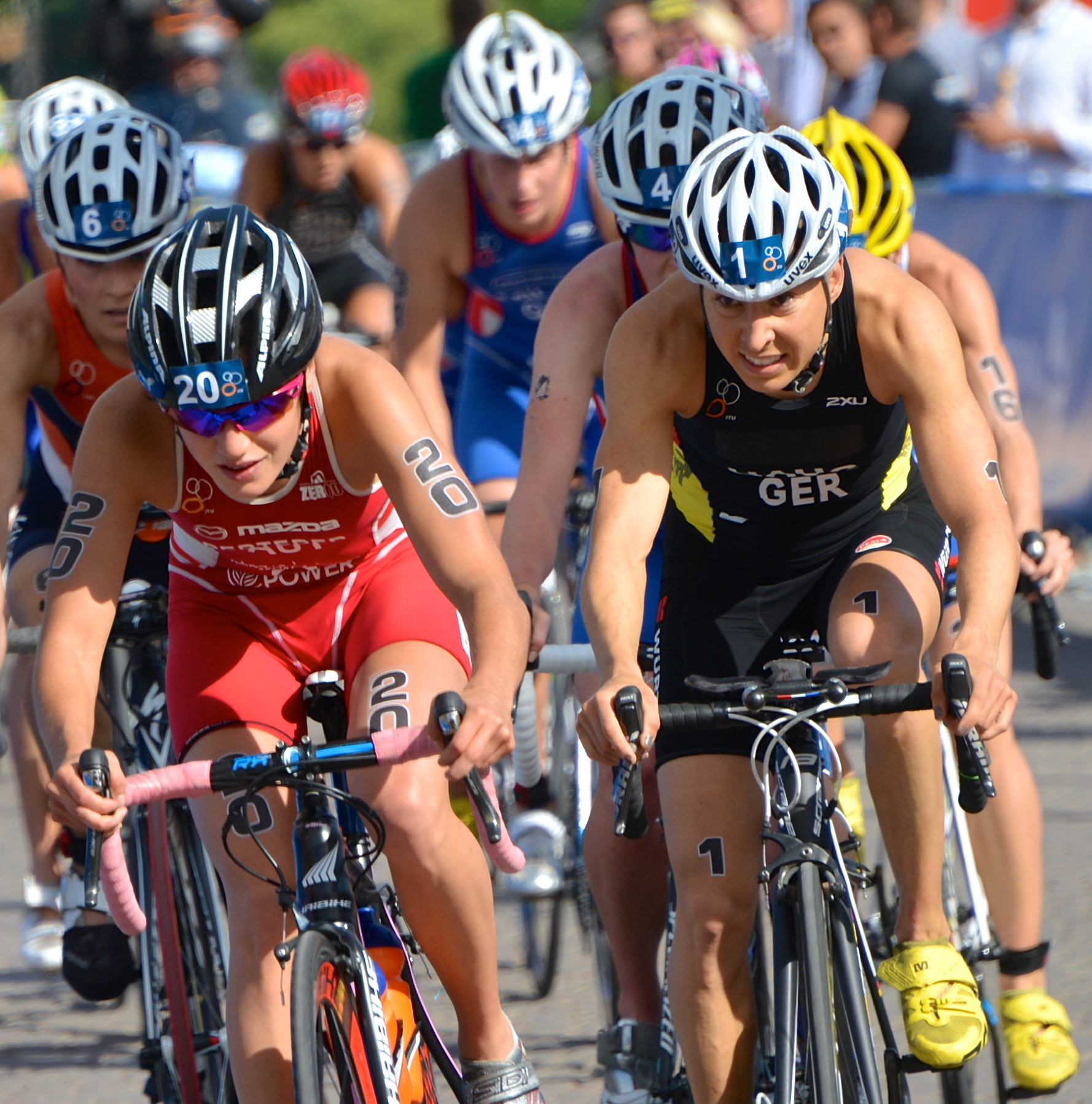 Anne Haug (nr 1) in 2013 ITU World Triathlon Stockholm.